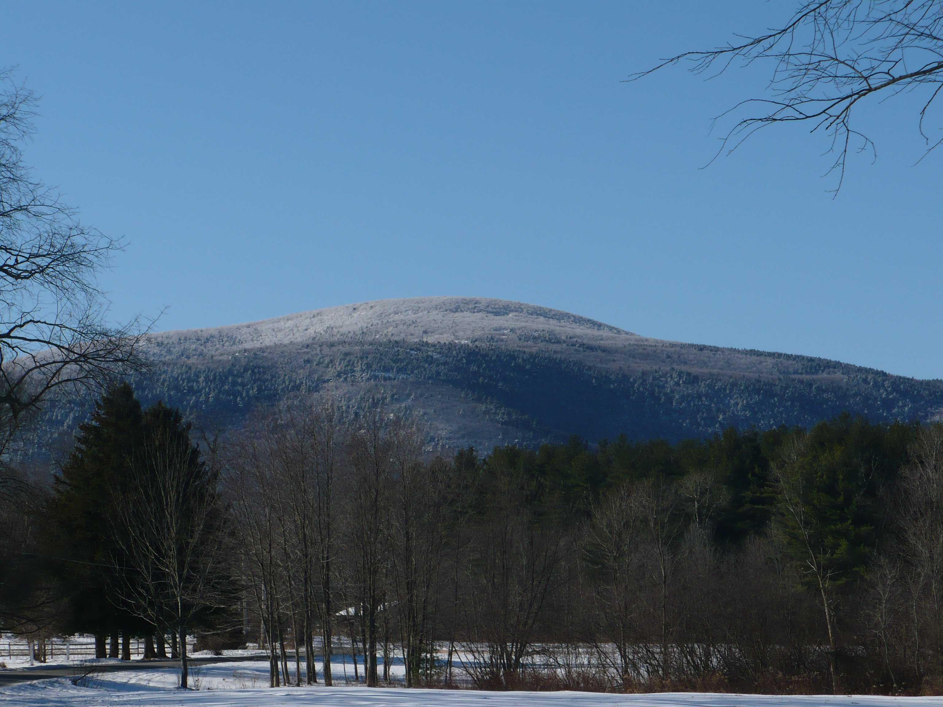 This is a photo of Mount Everett in January 2009 taken from Bears Den Road in Sheffield, MA.